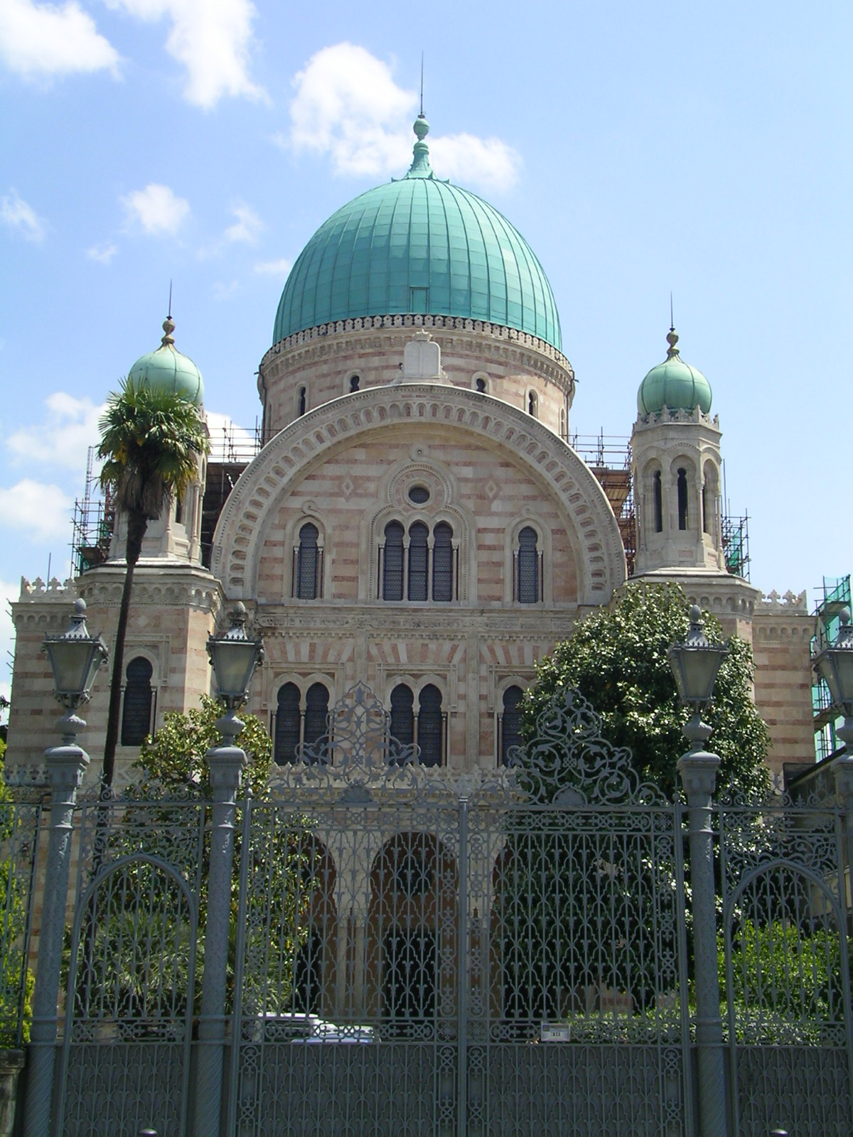 Synagogue front view in Florence, Italy